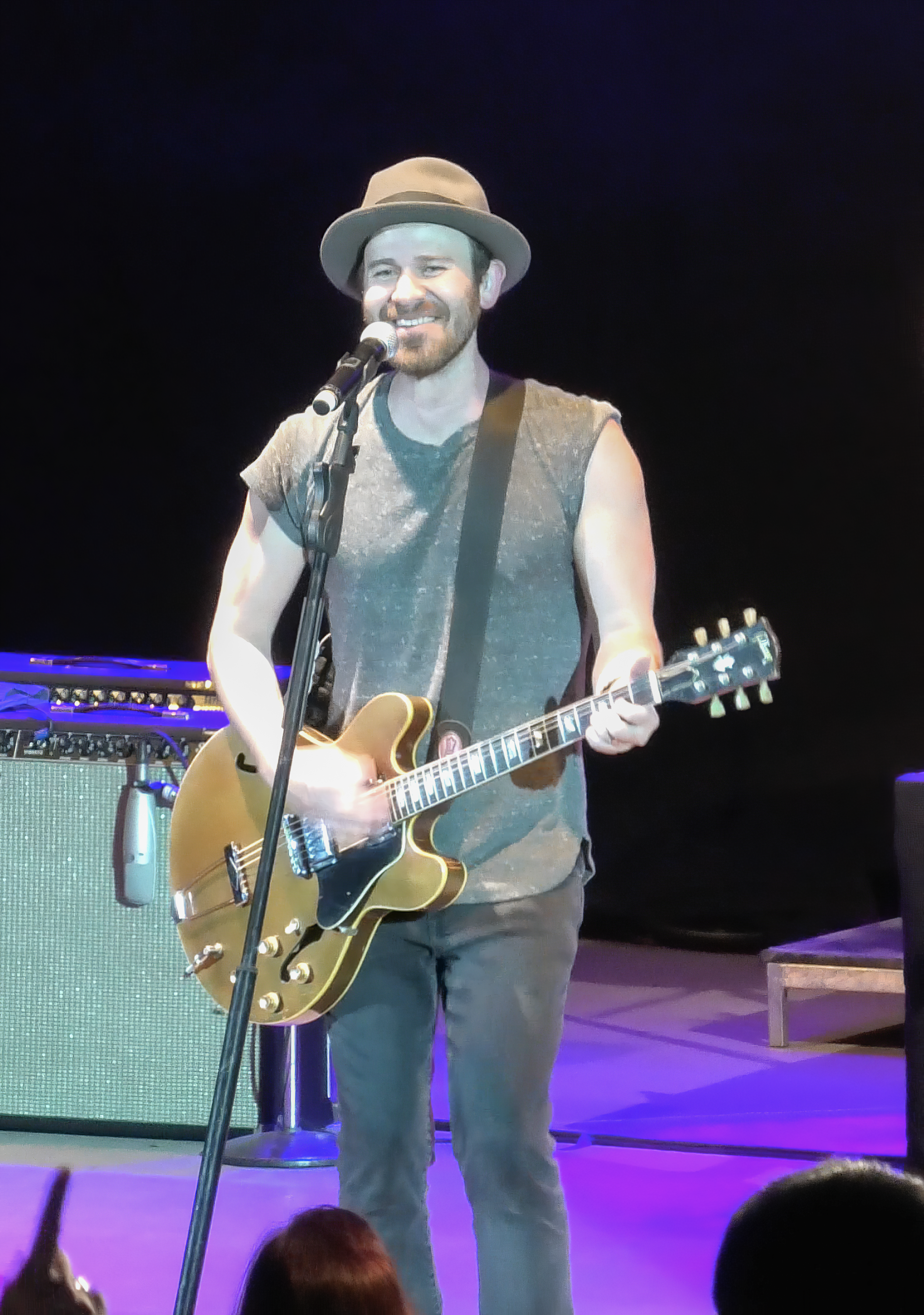 Jason Wade with Lifehouse performing at the 2019 Alameda County Fair